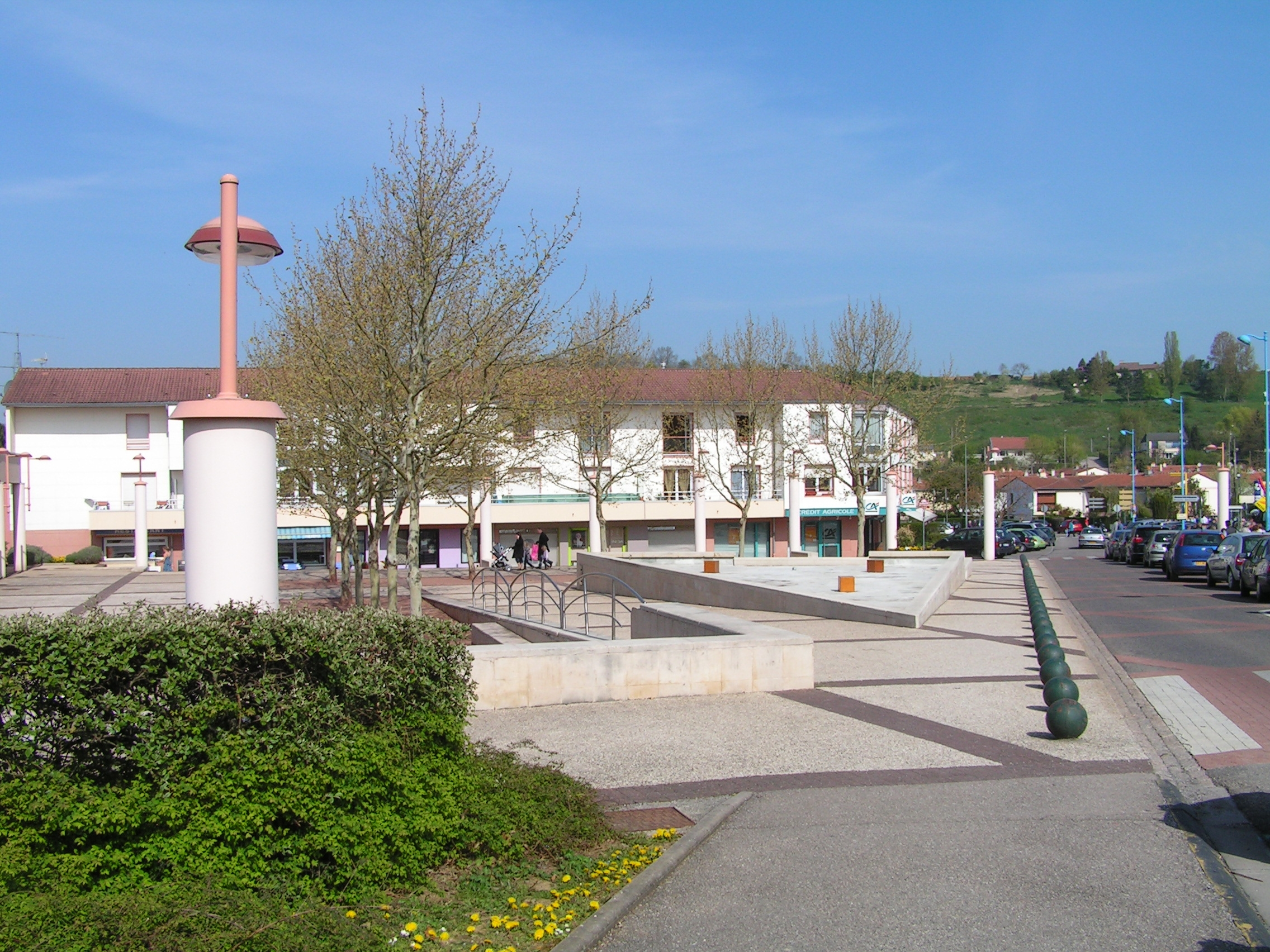 François Mitterrand Square, Seichamps, Meurthe-et-Moselle, France